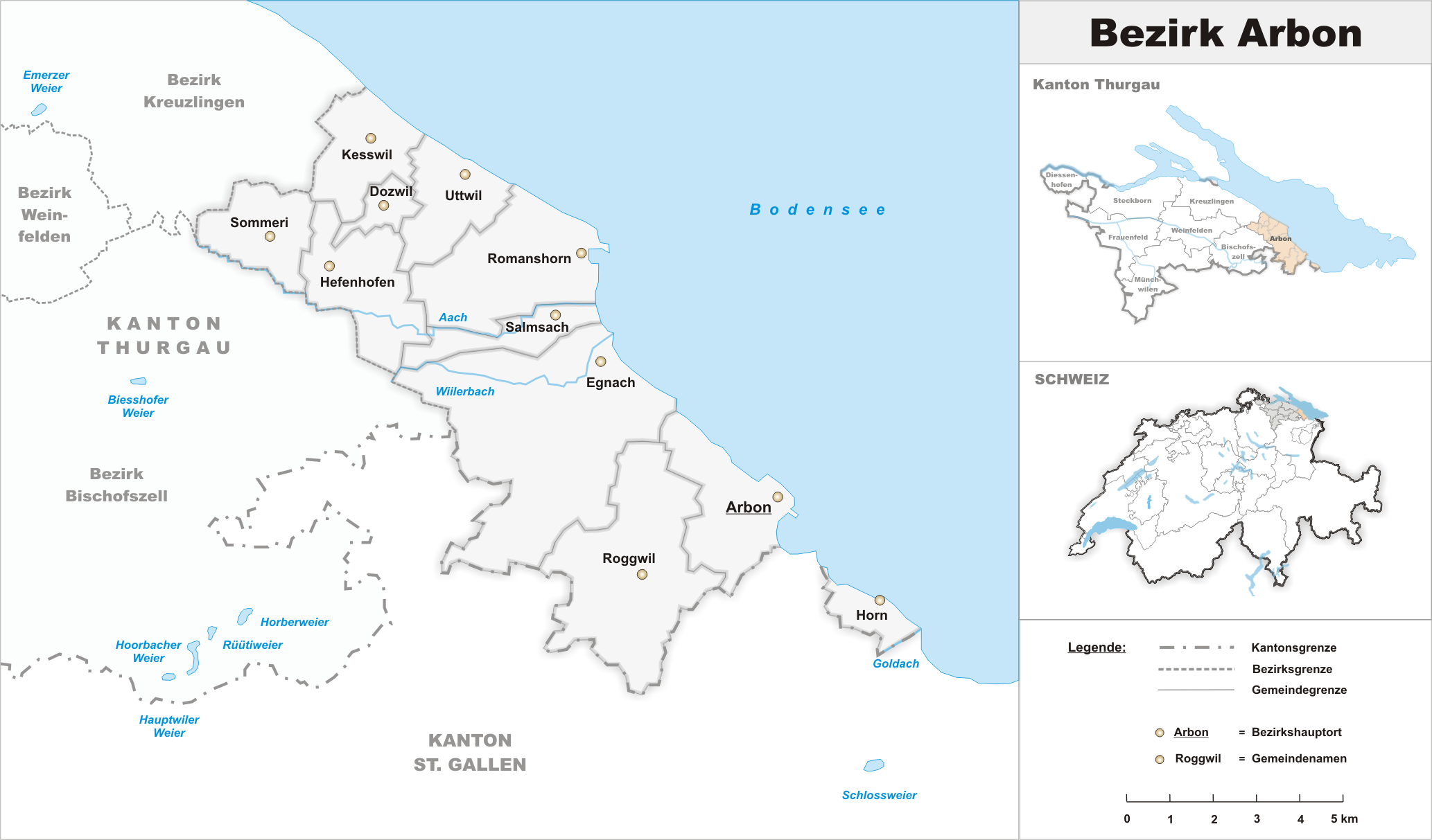 Municipalities in the district of Arbon